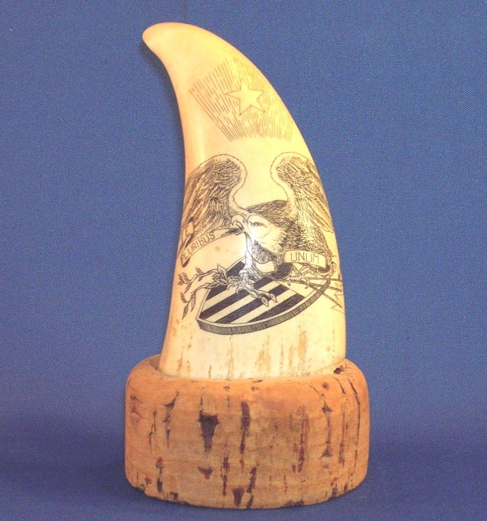 Eagle on shield beneath a single shining star. One of several whales teeth "scrimshawed" by Leo J. Meyer between 1964 and 1971.